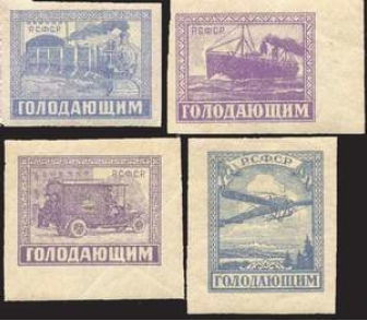 RSFSR Pomgol semi-postal stamps, 1922, 25 r. each but denomination is not printed, CPA 50-53, Scott B34-B37